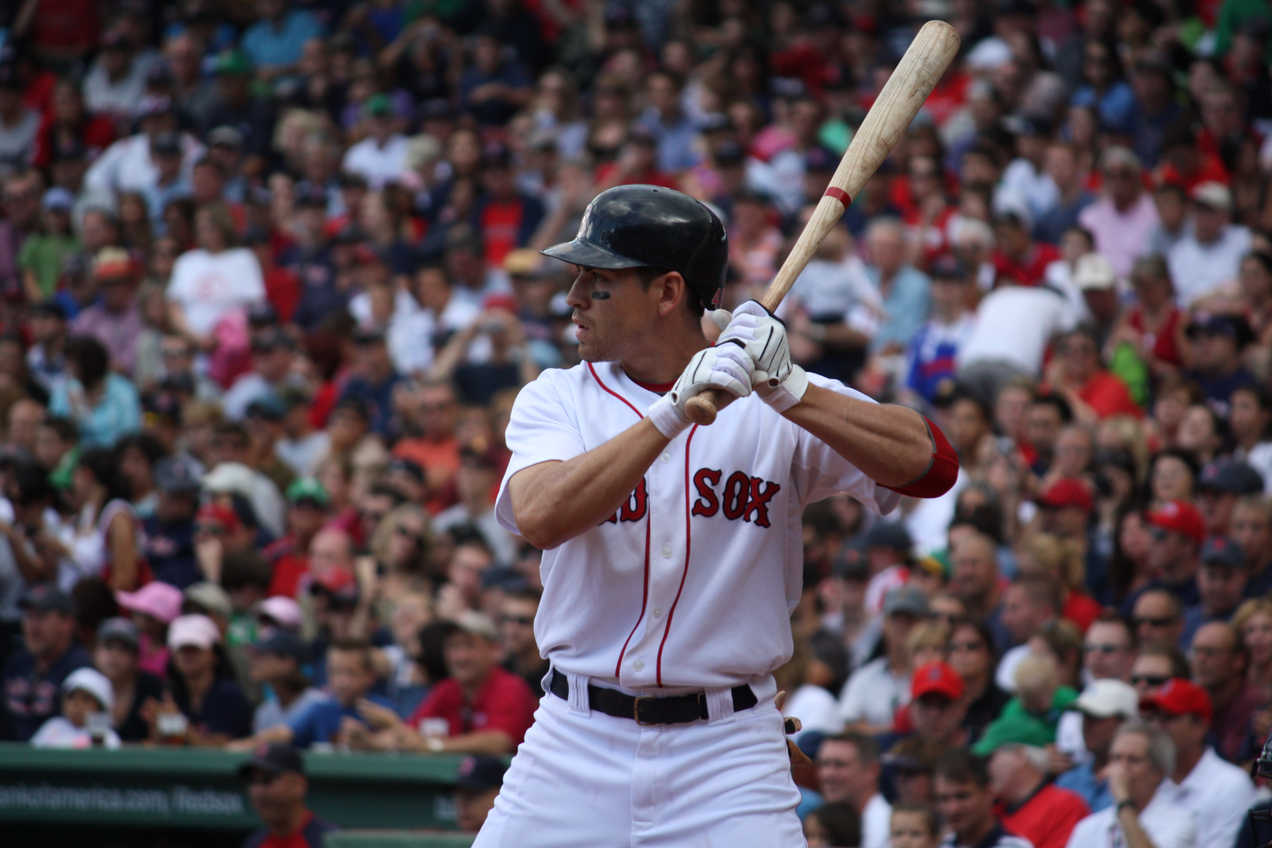 Description Jacoby Ellsbury at bat 09/13/2009 Date13 September 2009SourceI, Parker Harrington, created this work entirely by myself.AuthorParker Harrington 21:05, 13 September 2009 . . Parkerjh . . 4,272×2,848 (3.7 MB) Jacoby Ellsbury at bat 09/13/2009